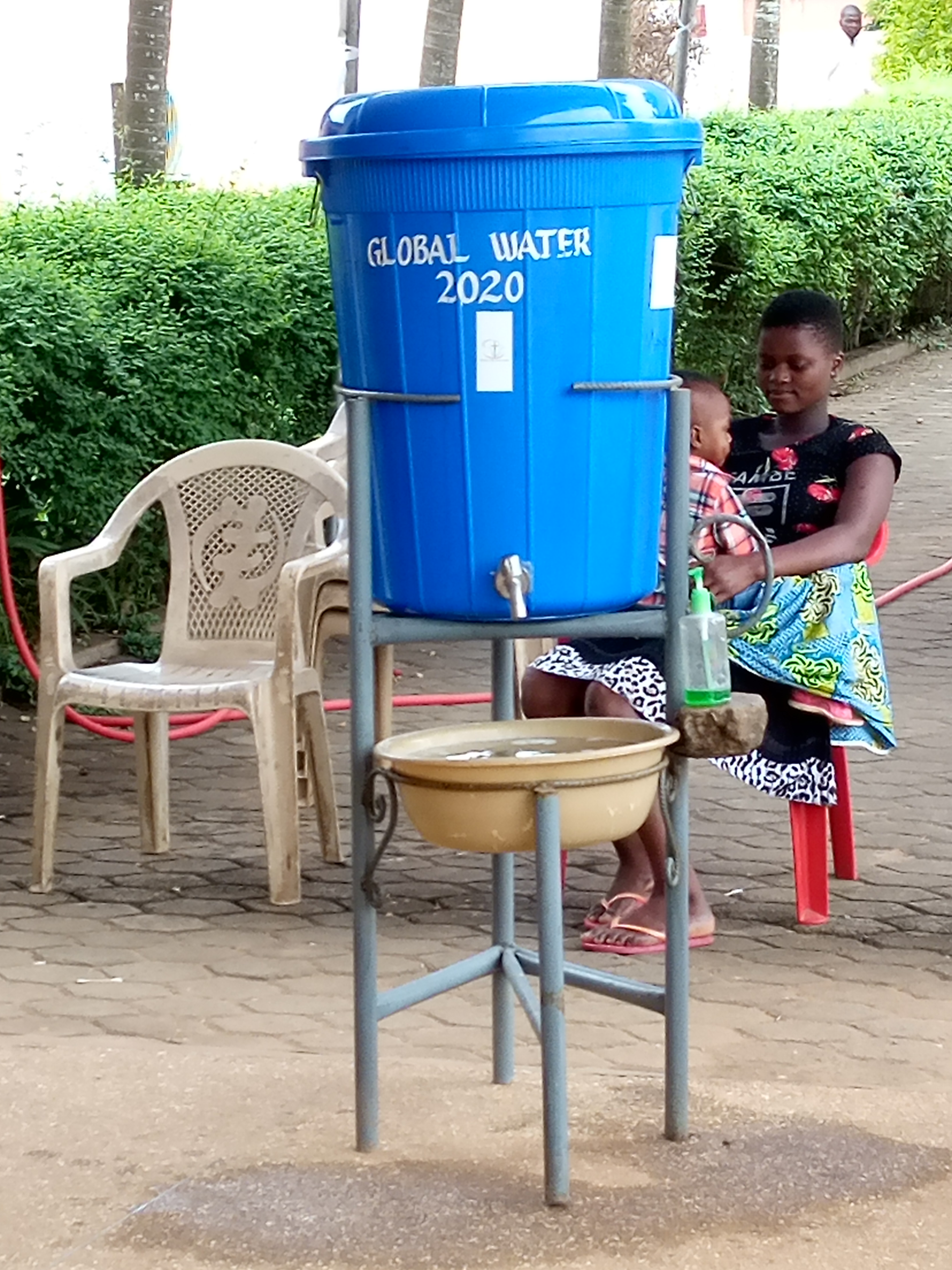 Used for washing hands with soap and water